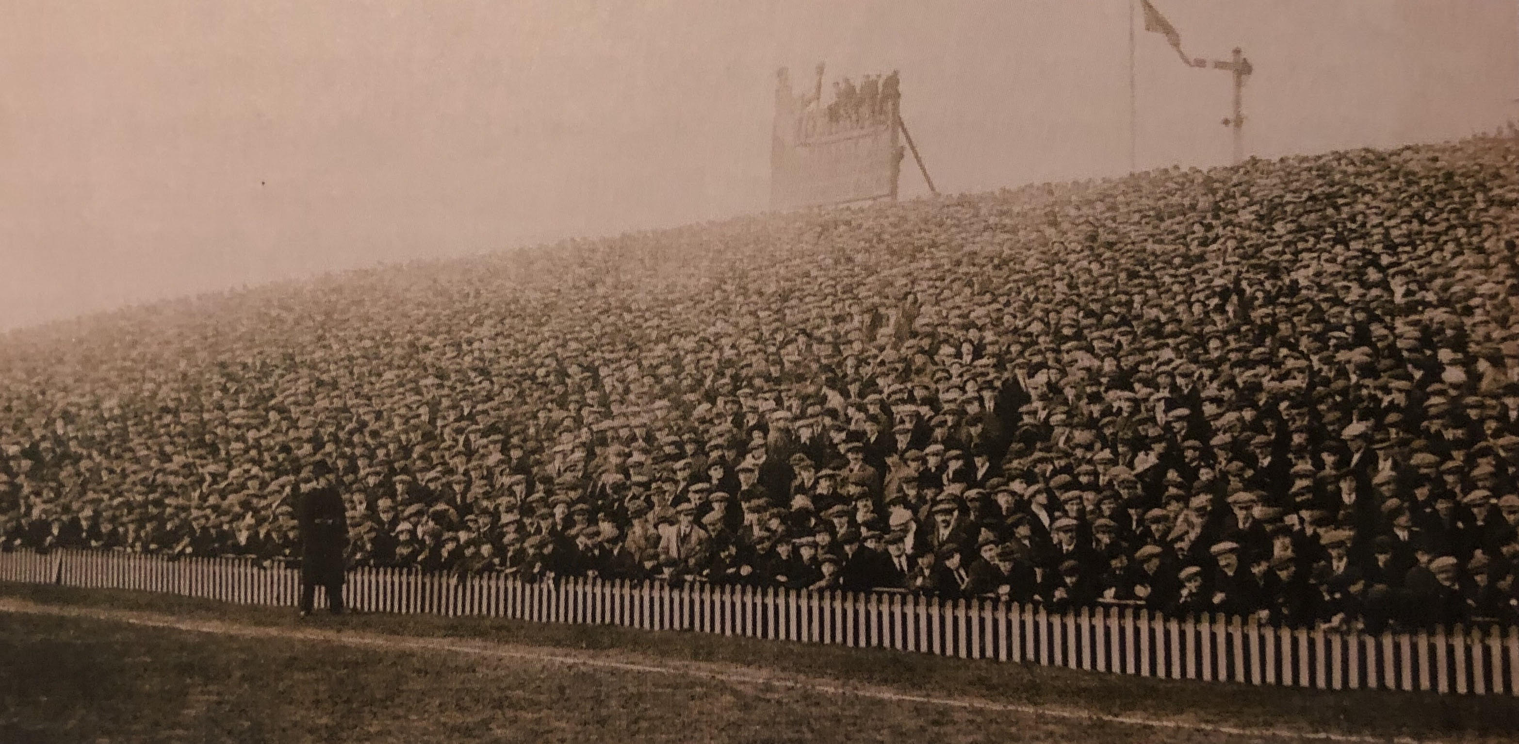 Millwall fans at The Den in an FA Cup replay against Crystal Palace, 1 February 1922